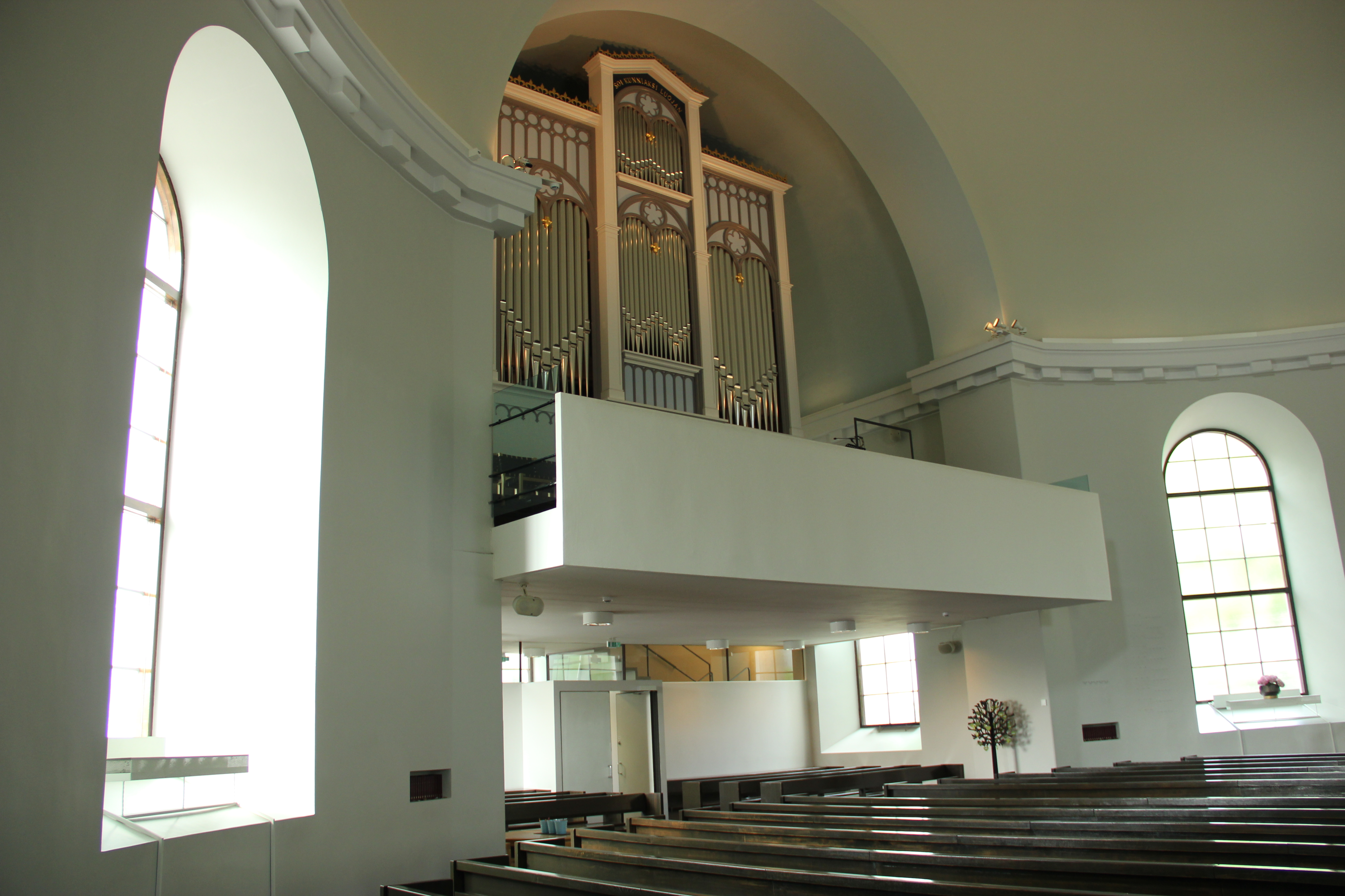 The organ is in Ladegast style by a German organ builder Georges Heintz